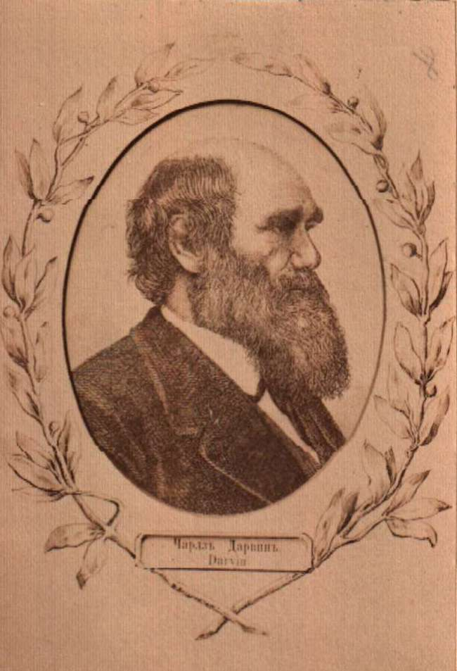 Charles Darwin (1809-1882)